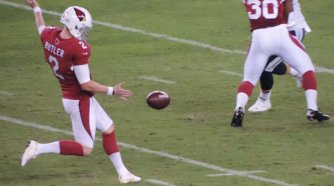 Drew Butler punts the ball against the San Diego Chargers on Sep. 8, 2014.